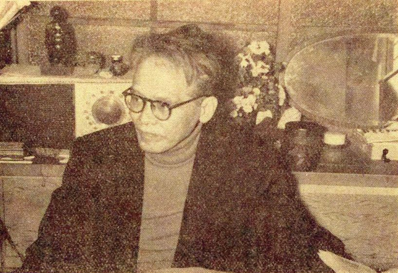 Tomoya Tsuruta